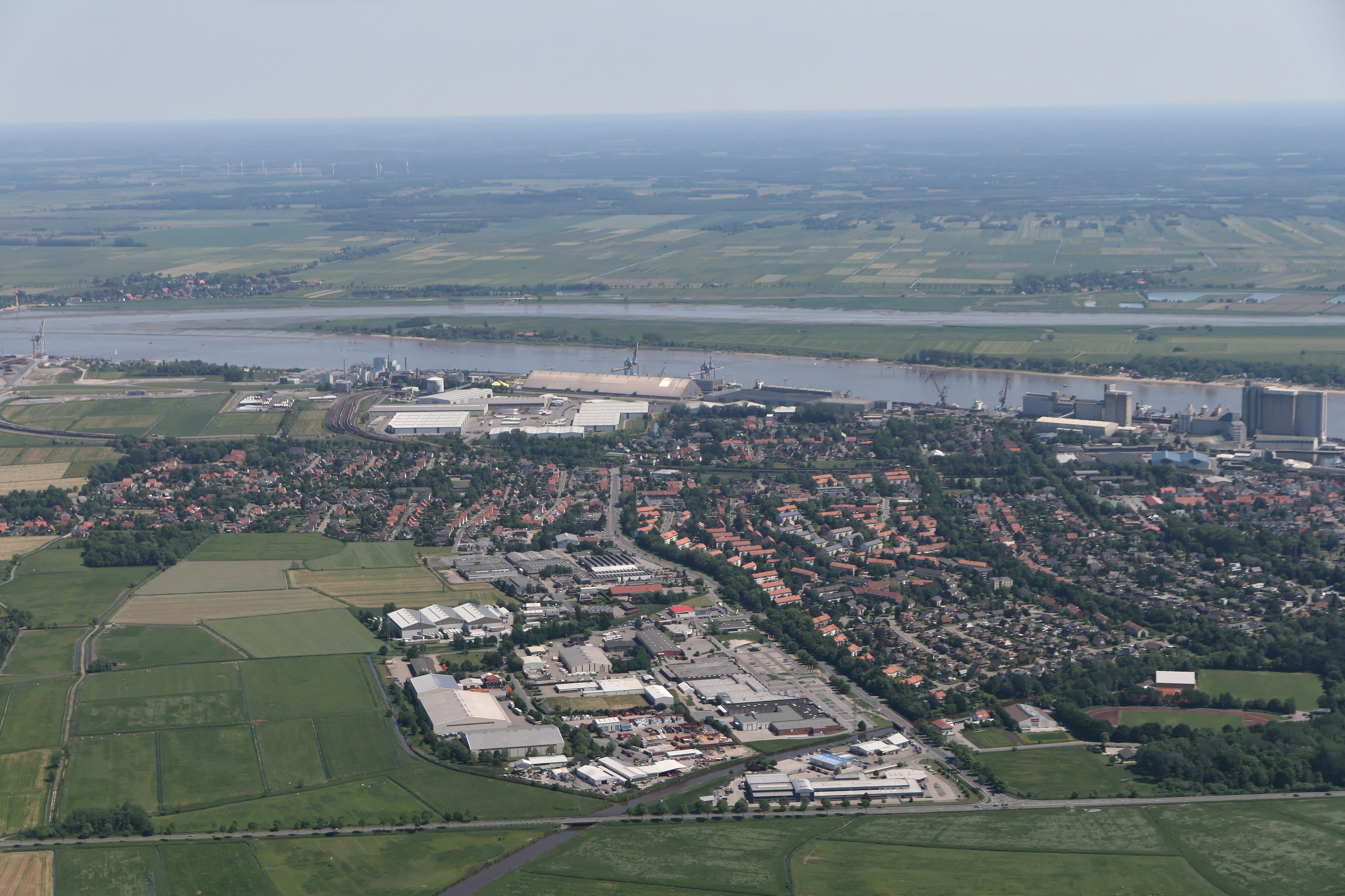 An aerial photograph of Brake (Unterweser) (Boitwarden)